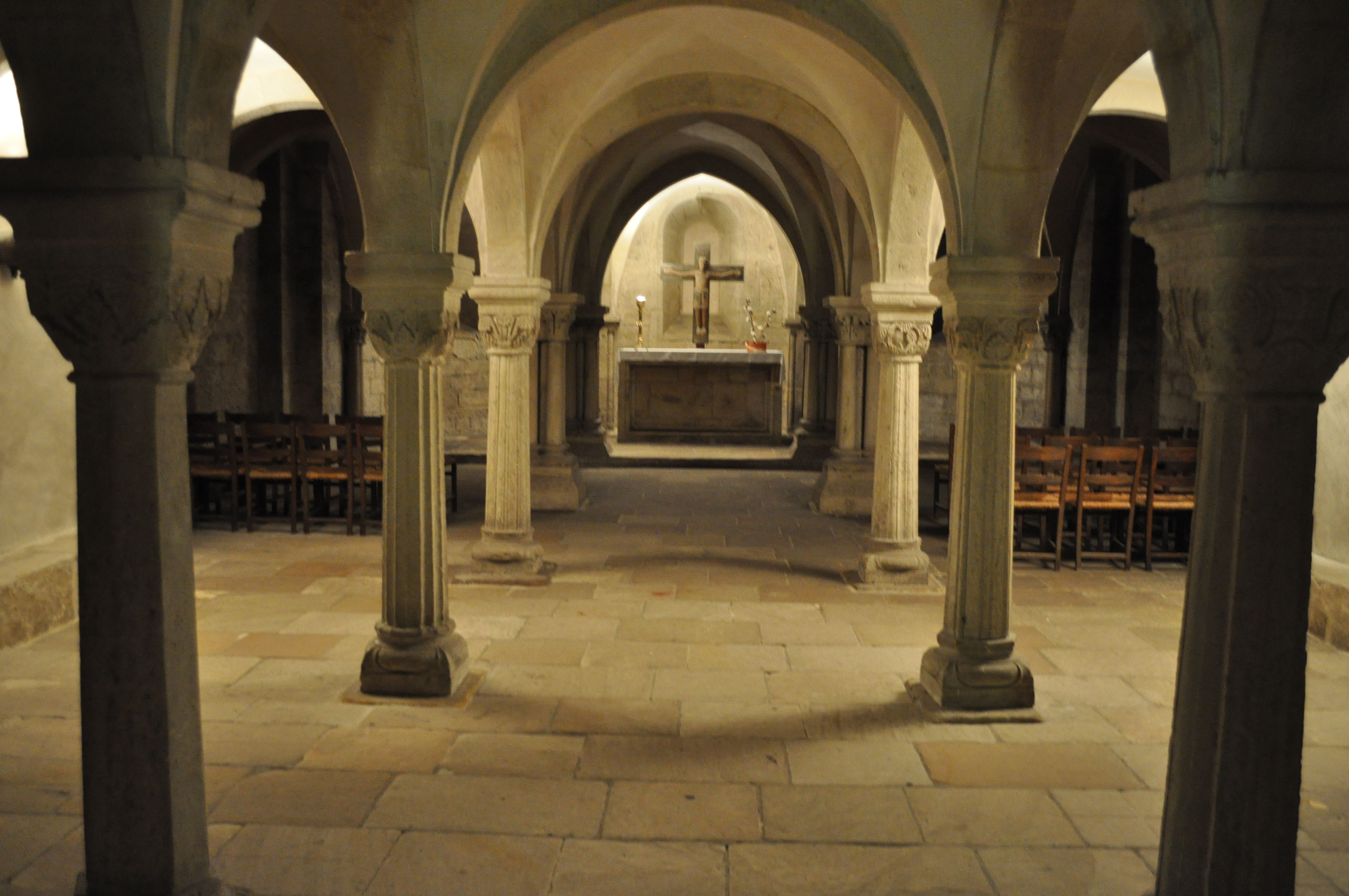 High Romansque Crypt of the Naumburg Cathedral (1160/70)